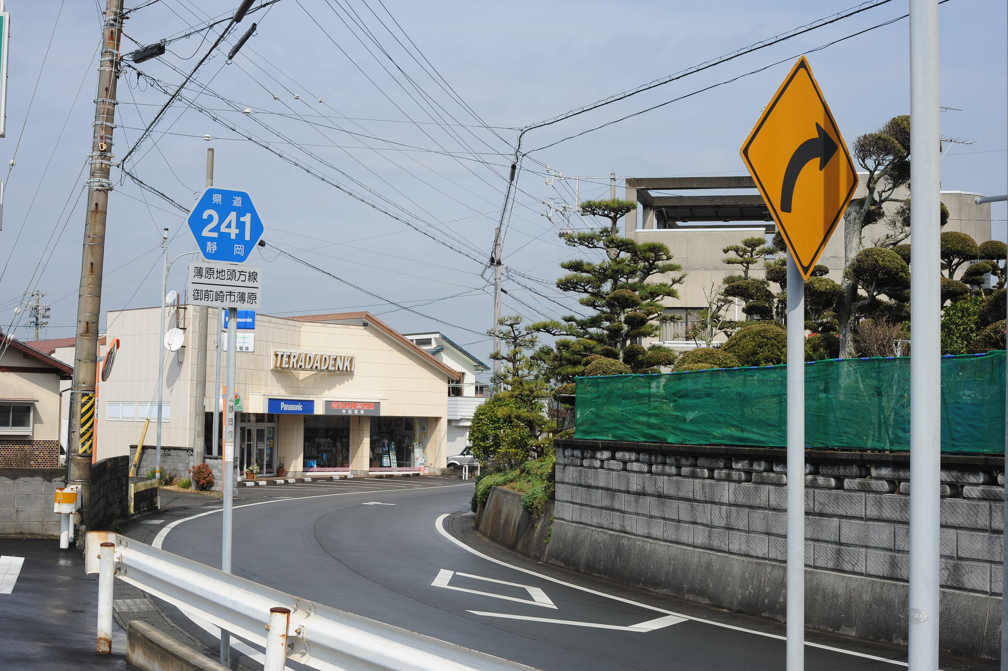 Shizuoka Prefectural Route 241, Omaezaki, Shizuoka